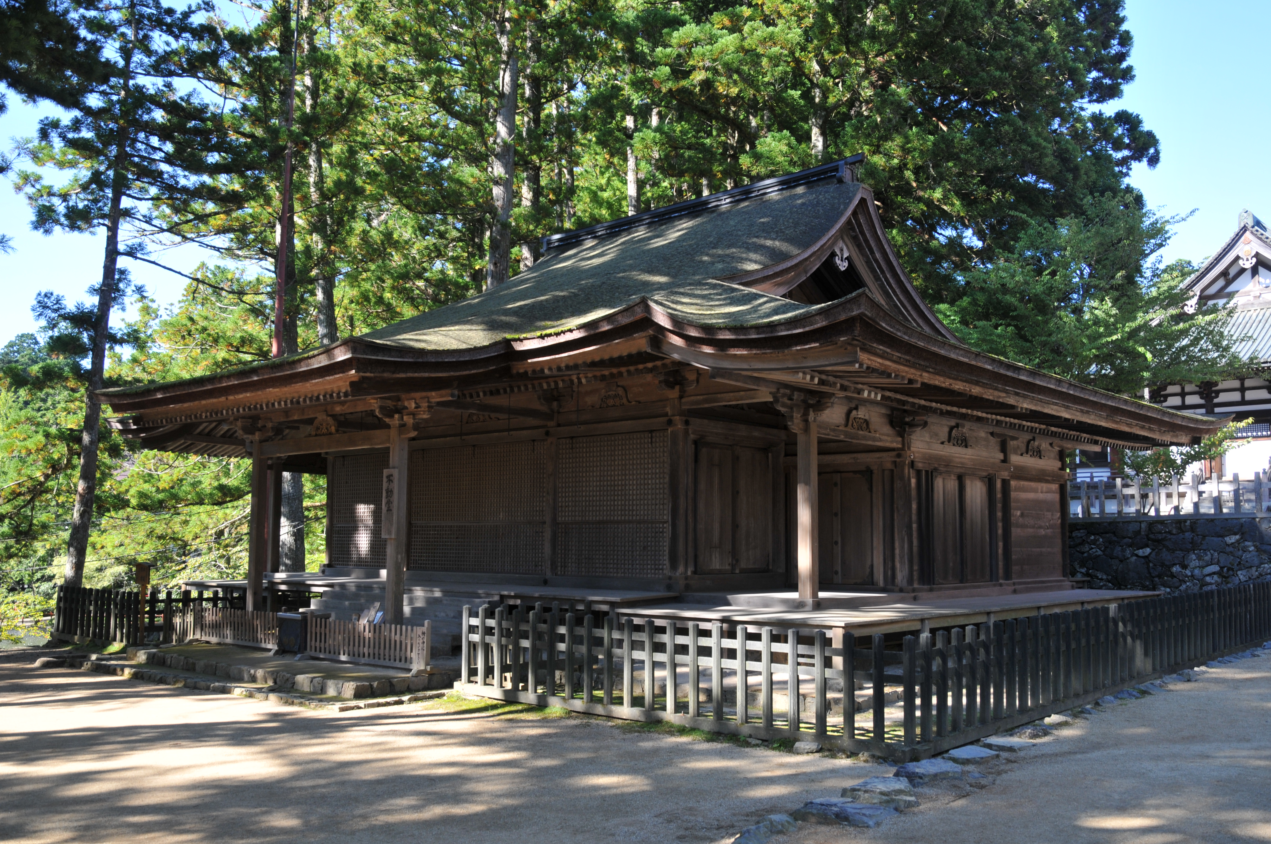 Fudō-dō(Japan's National Treasure), Danjogaran